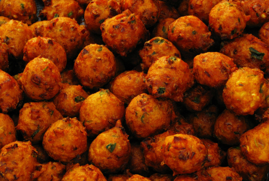 The real South Indian! Oily-Delicious-Spicy-TongueTickling-MouthWatering.... The qualifications goes on... But this is the best "isotope" of Bonda, I have ever had. @Pichatur Jn. Re 1/piece. Worth a buy. Best tastes with their own proprietary chutney and a cup of tea.